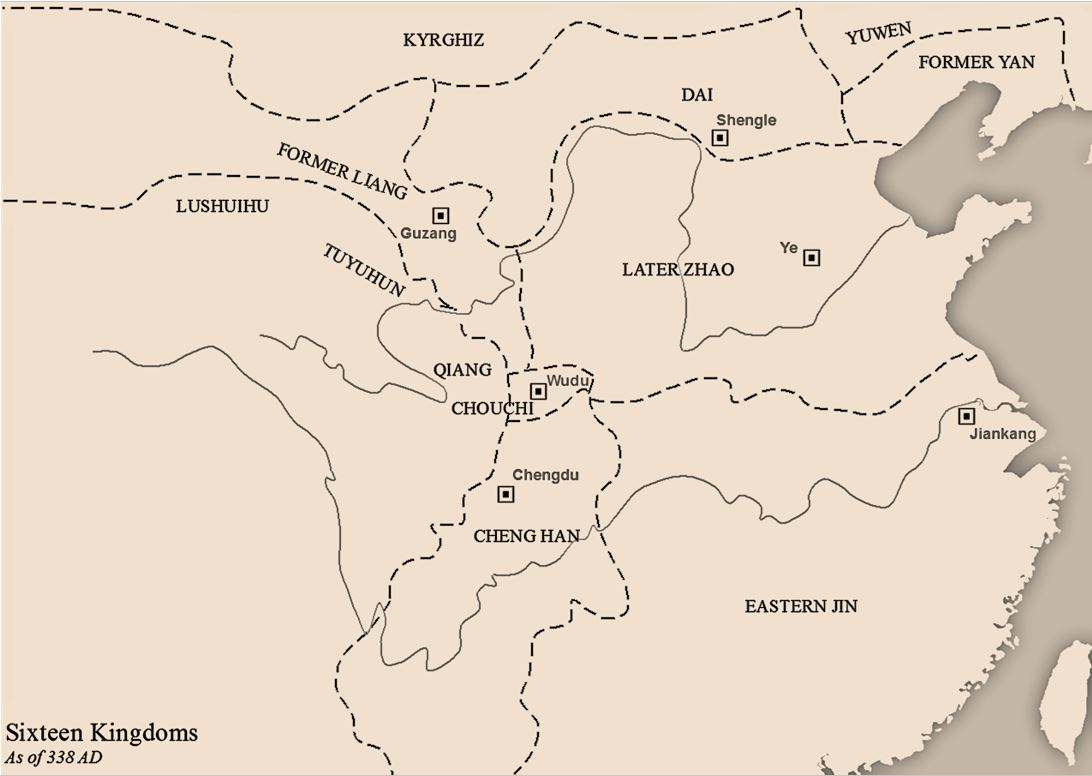 Map of Sixteen Kingdoms as of 338 AD